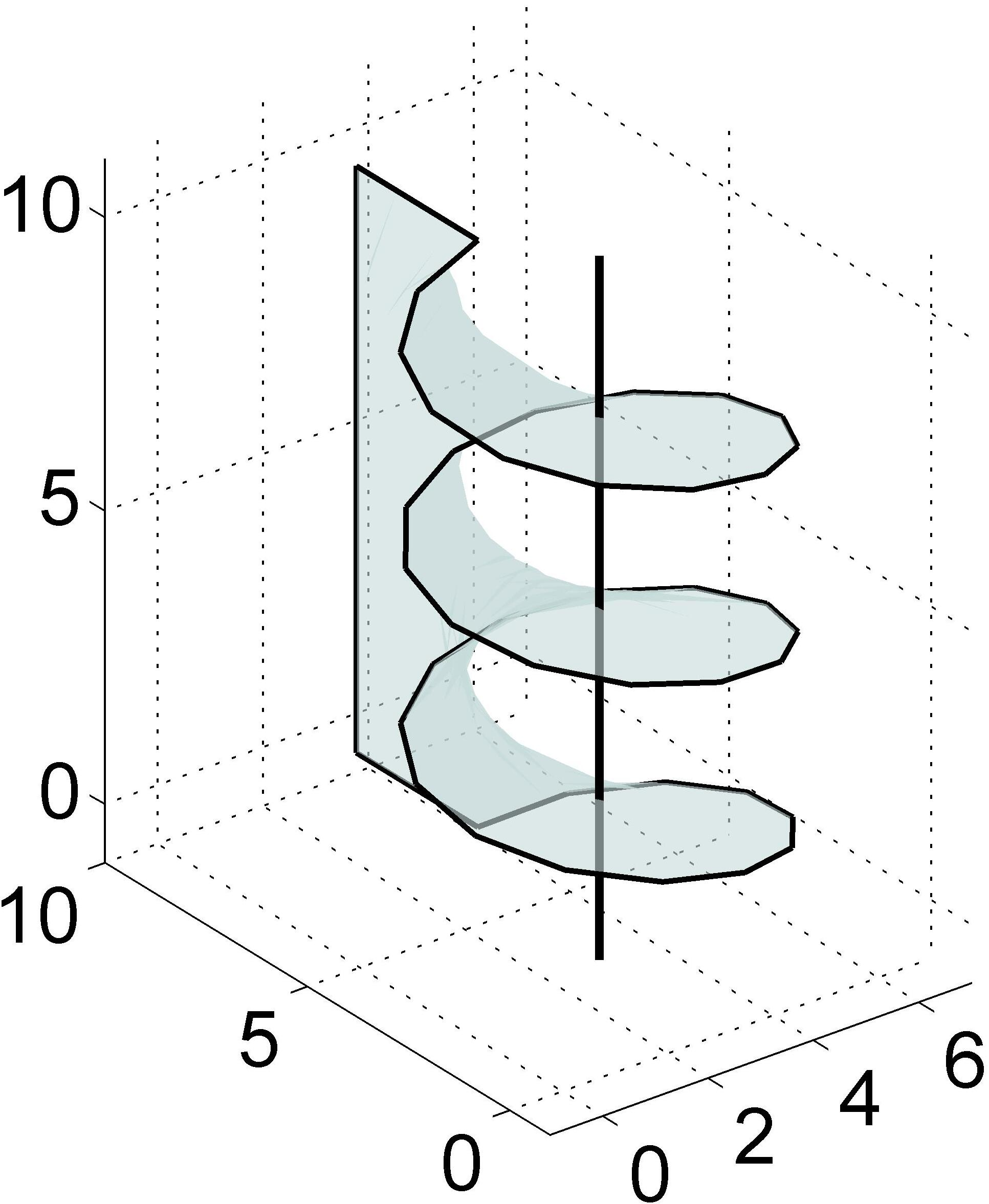 (Minimum) area of a coil with three turns